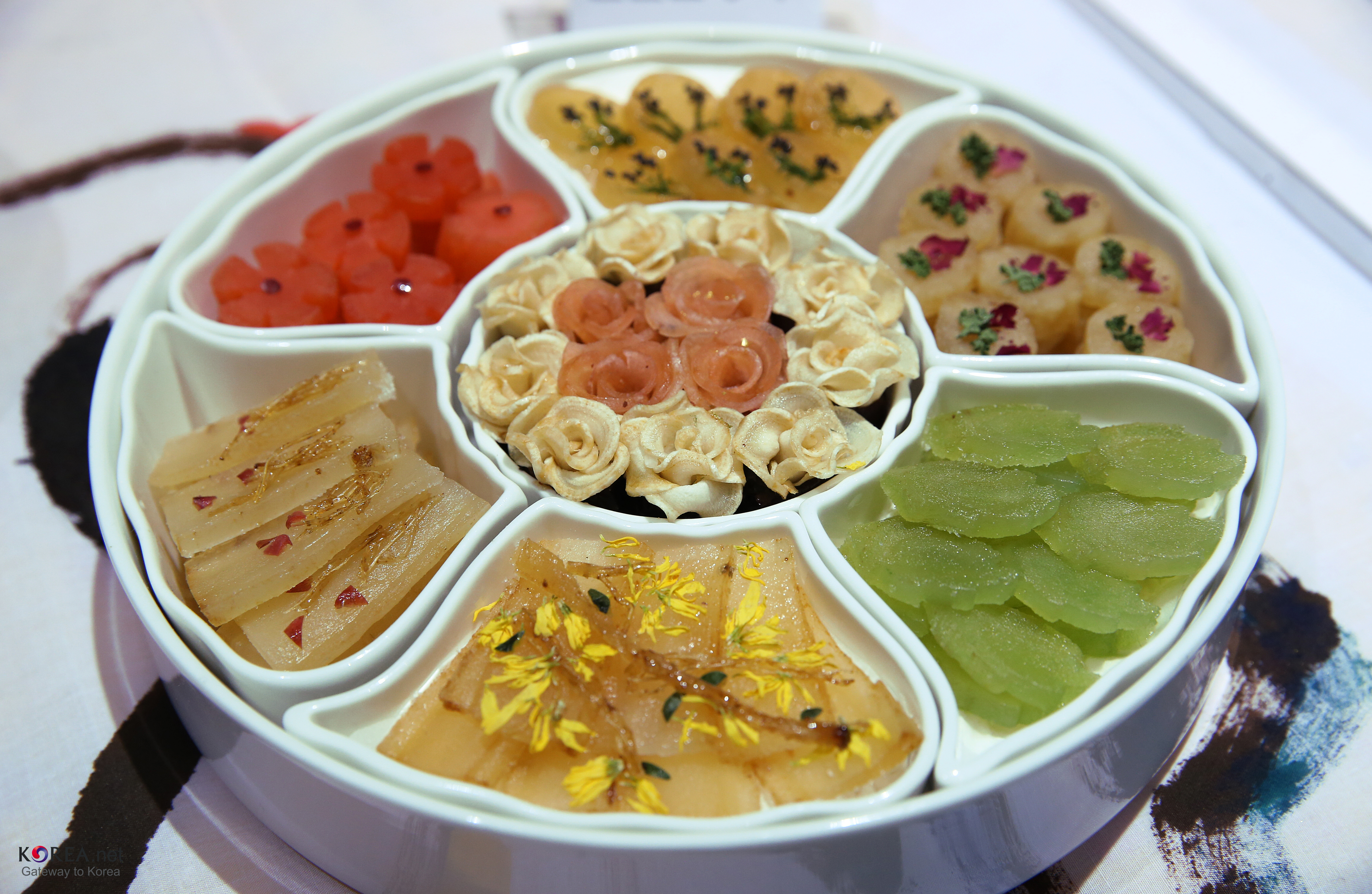 Special symposium on Hanbok National Museum of Korea, Seoul 2013.04.04. Ministry of Culture, Sports and Tourism Korean Culture and Information Service Newsroom Jeon Han 한복 심포지엄 '한복의 미래, 입어서 자랑스런 우리 옷' 국립중앙박물관 문화체육관광부 해외문화홍보원 코리아넷 전한